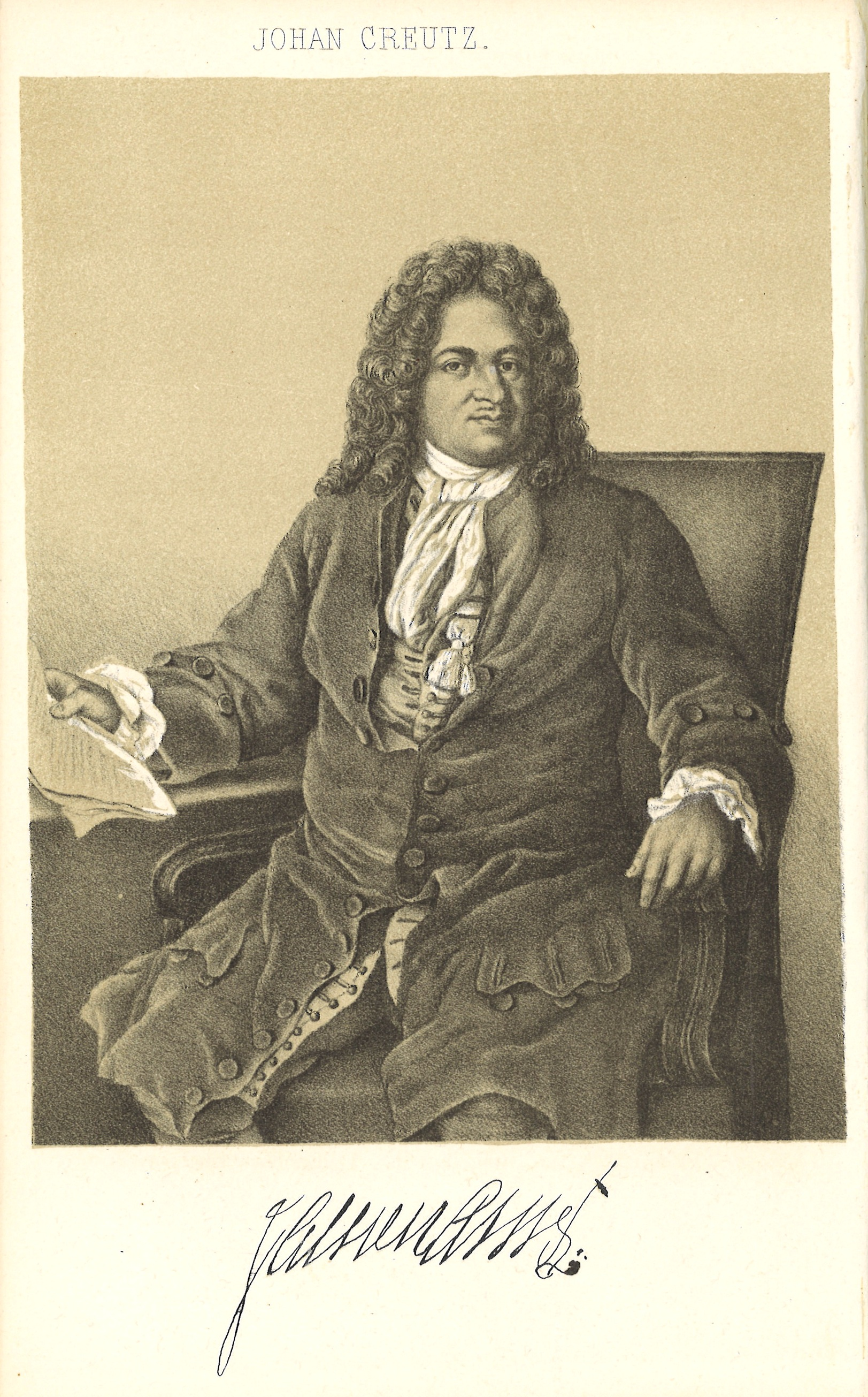 Johan Creutz (1651-1726), Swedish count, officer, senator and "lantmarskalk" (chairman of the estate of nobility).